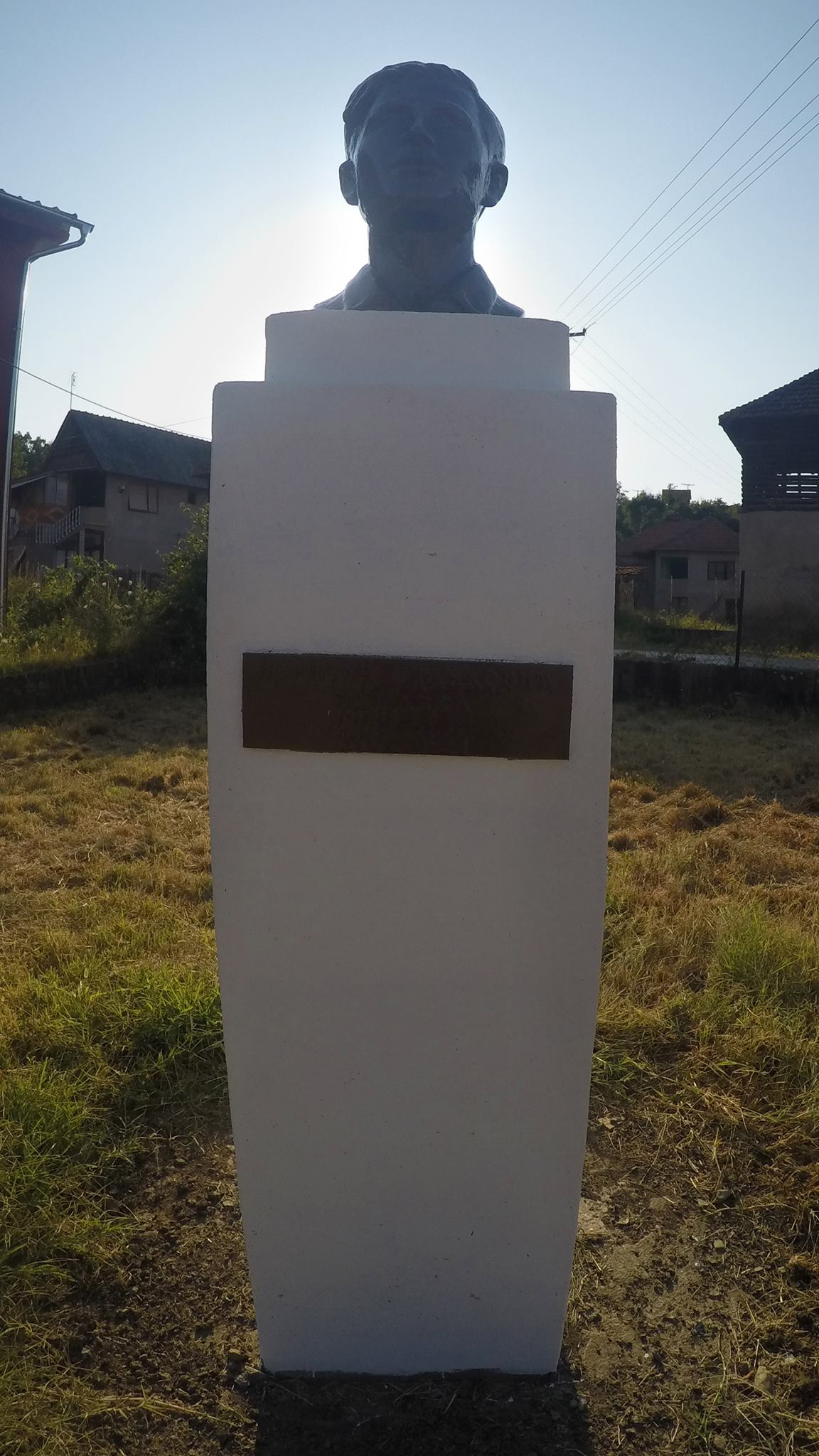 Биста Борислава Станковића Ћулавка 1919-1944